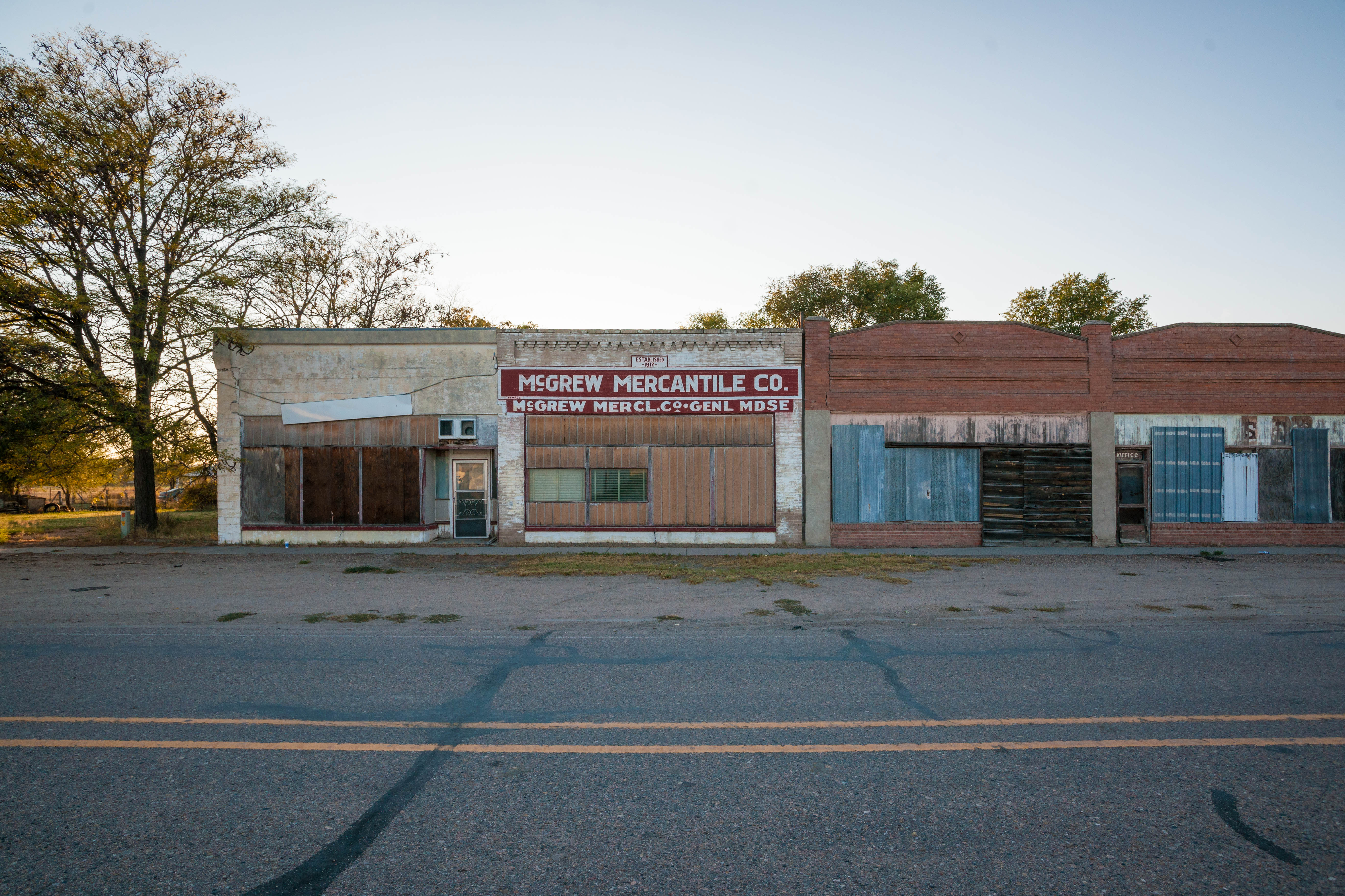 McGrew Merchantile in McGrew, Nebraska